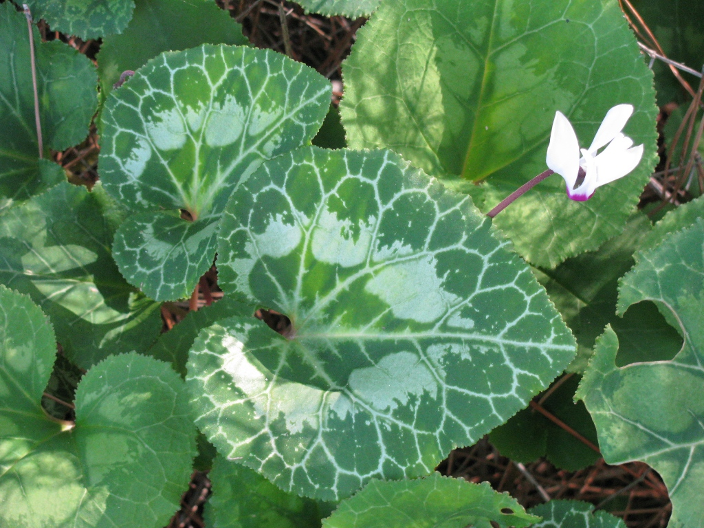 Cyclamen blossom season